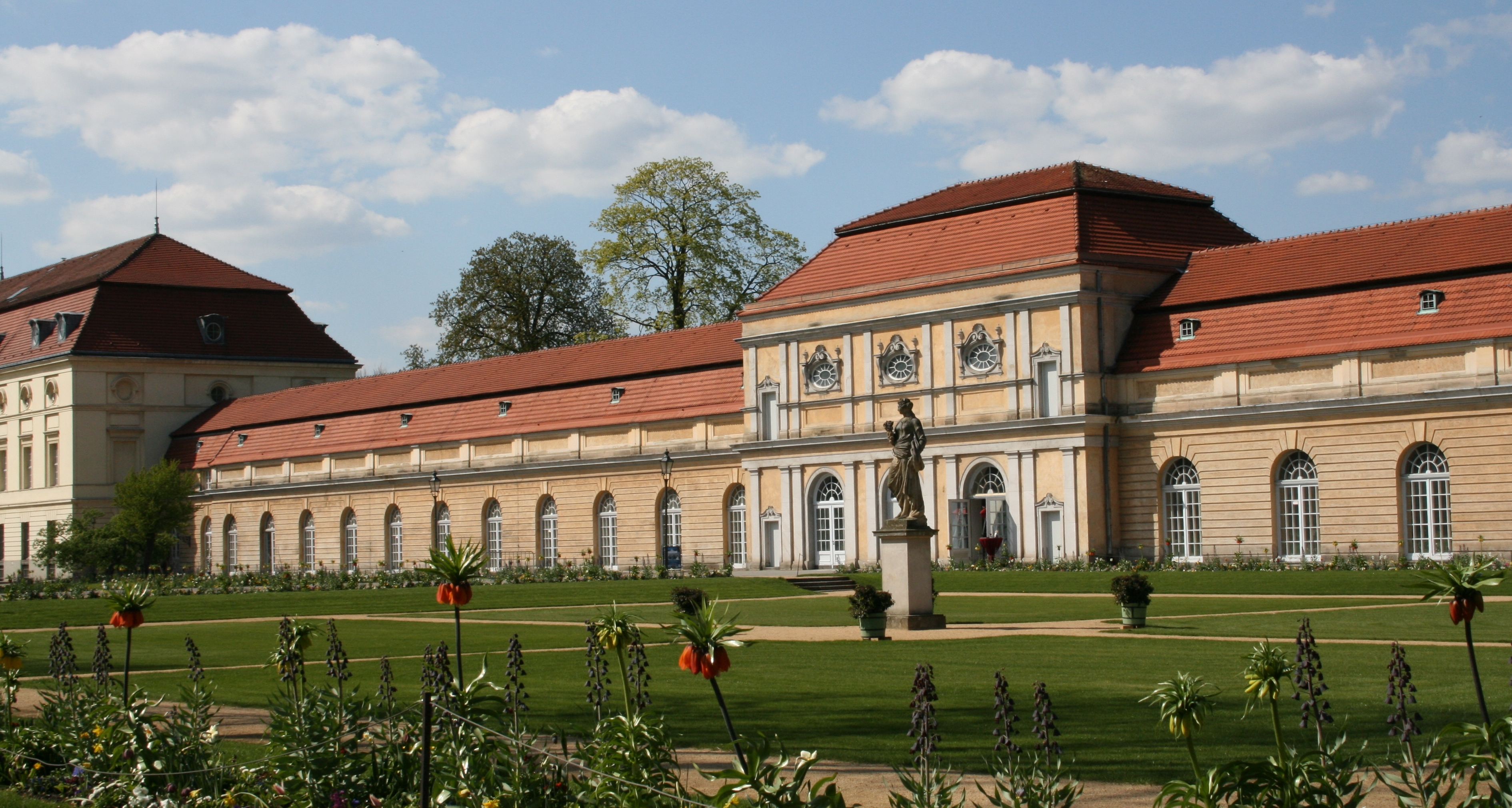 Berlin, Germany: Charlottenburg Palace, Orangerie